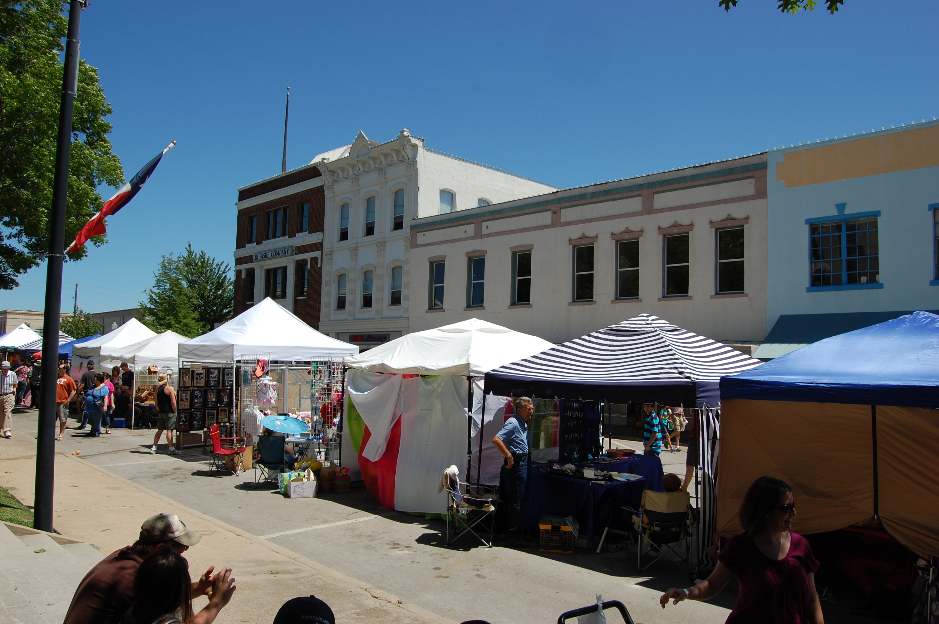 Downtown area of Brenham, Texas during the Flavors of Texas Festival around Maifest